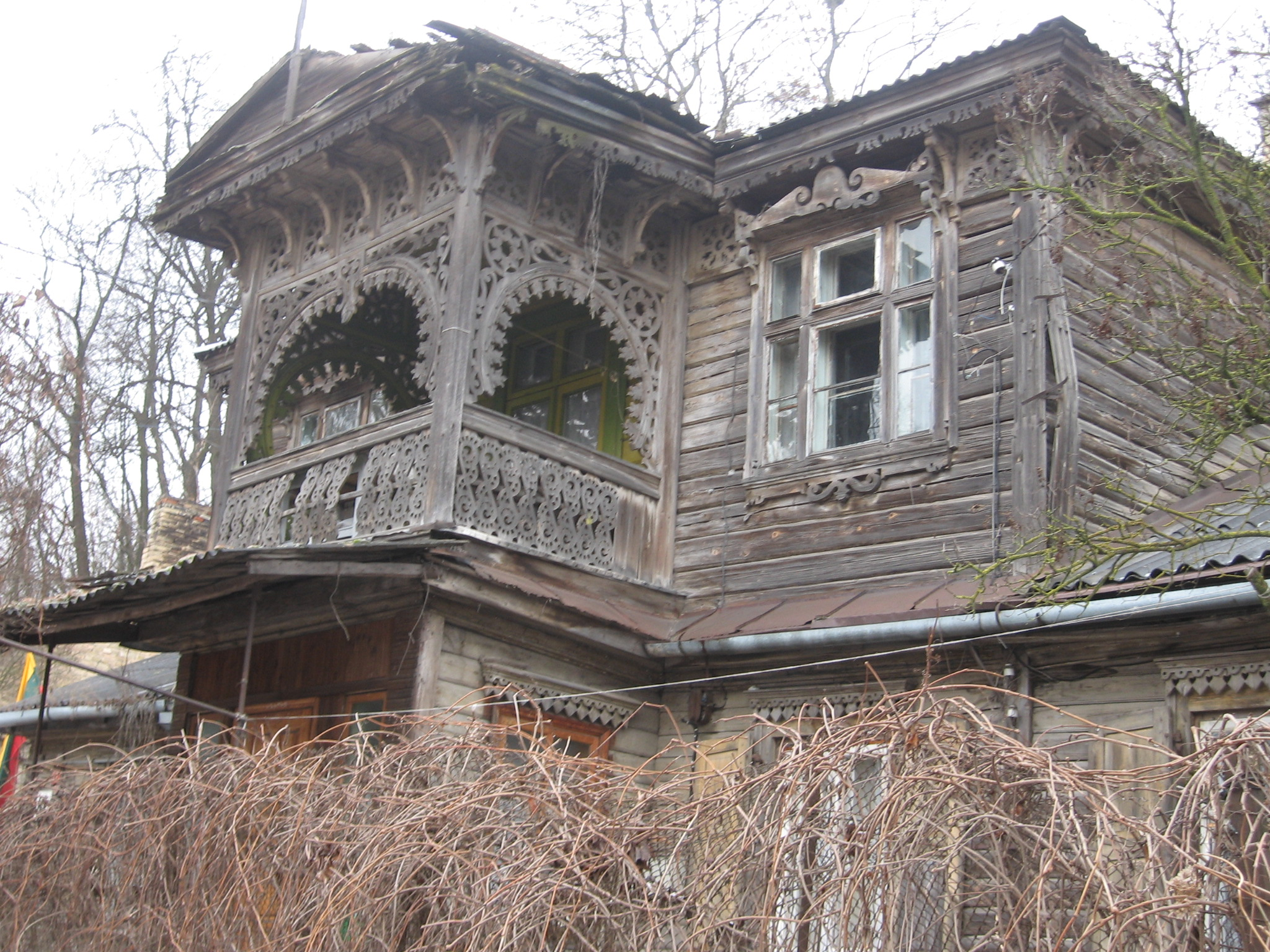 Old wooden building with ornaments in Užupis, Vilnius, Lithuania.